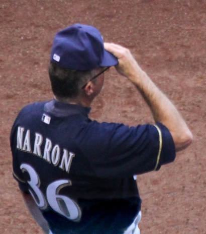 Milwaukee Brewers coach Jerry Narron